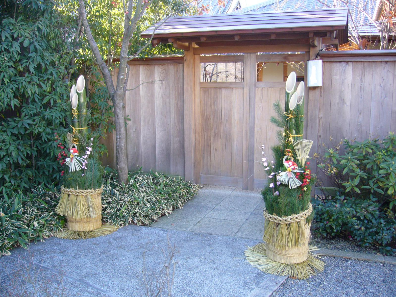 Pair gate with pine branches for the New Year, Kadomatsu, Katori City, Japan